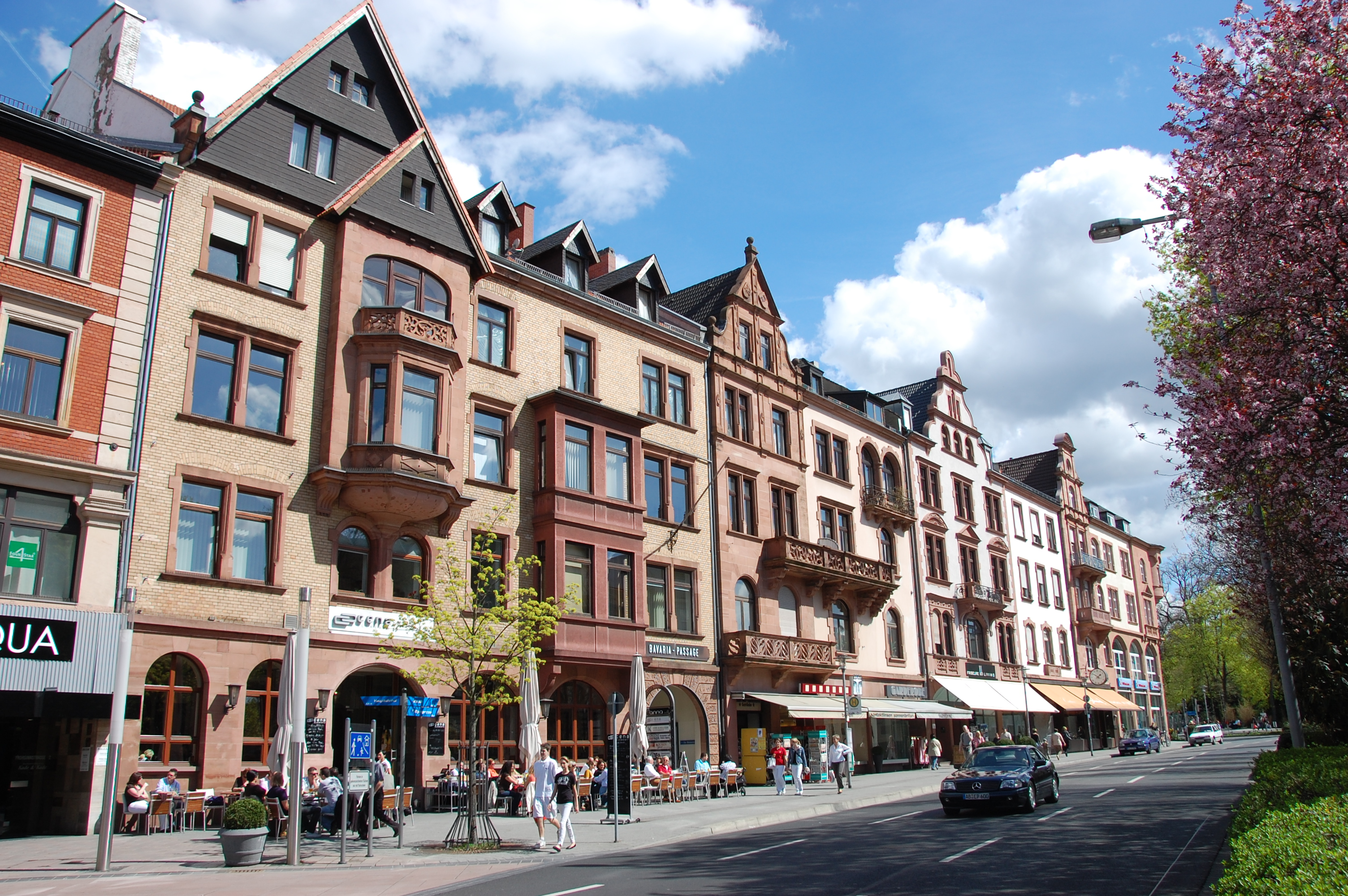 Weissenburgerstr. in Aschaffenburg